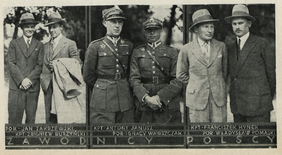 Gordon Bennett Cup 1934